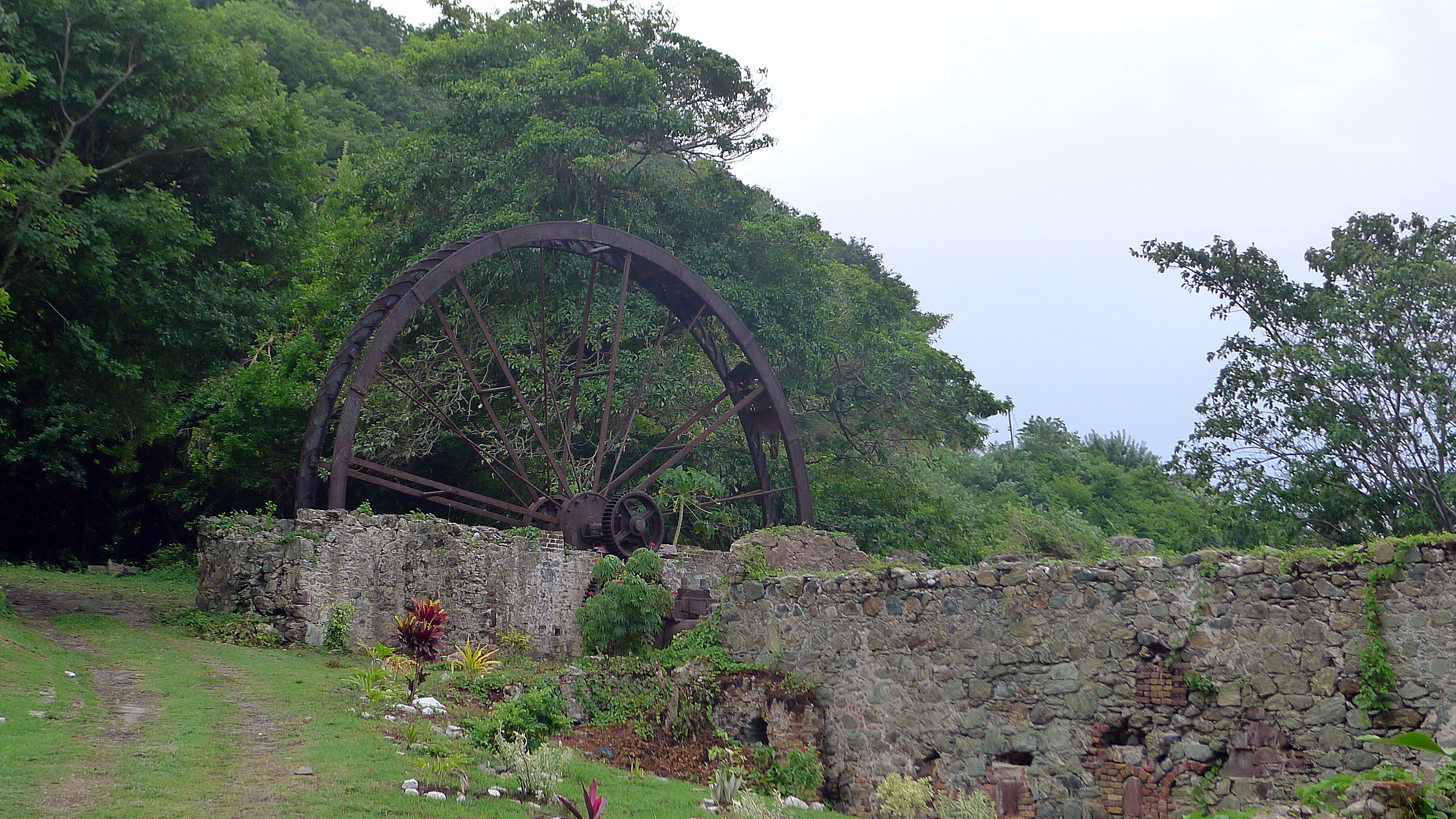 Speyside - This was the source of power for the machinery to extract sugar from the sugar cane grown on plantations in the colonial period.